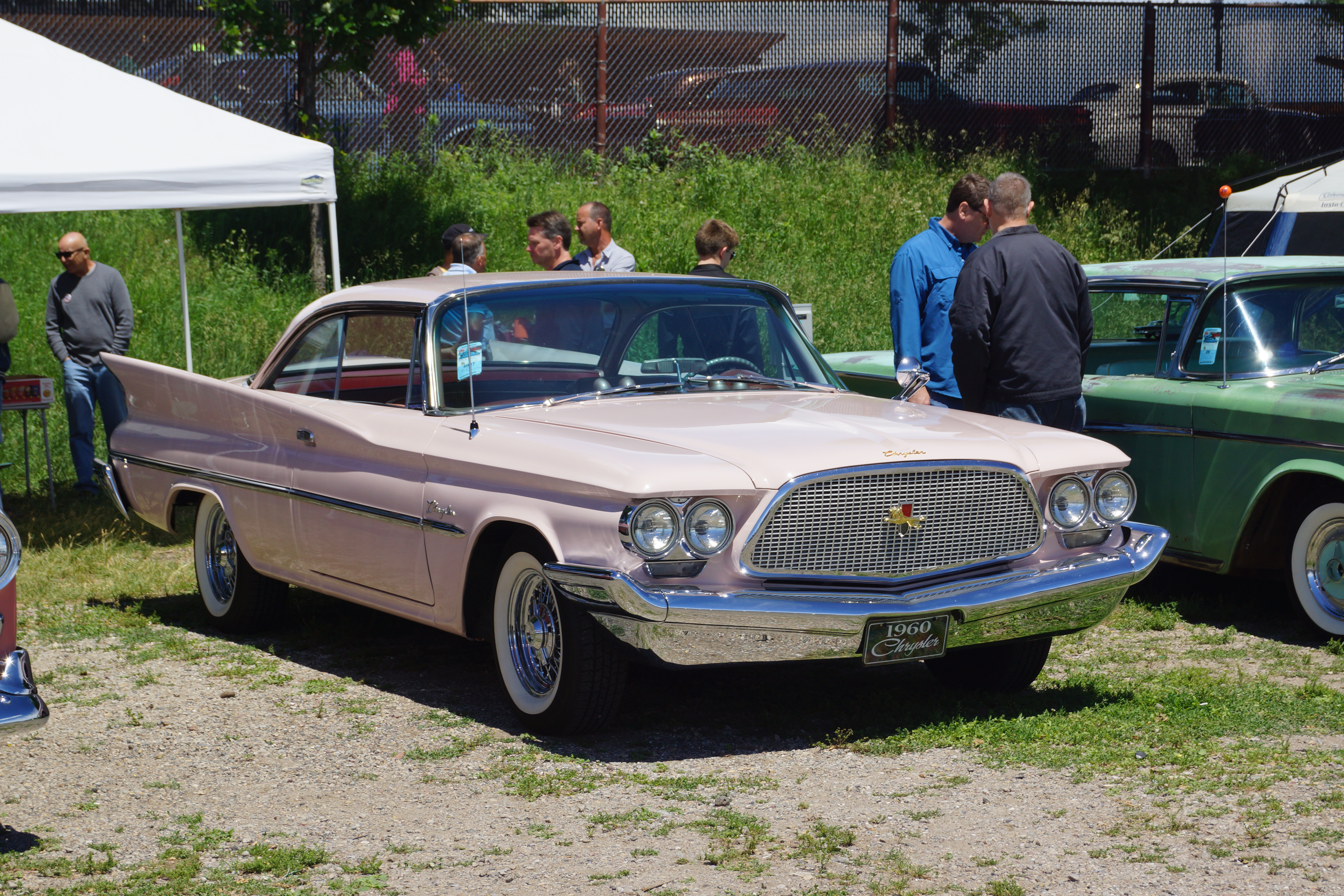 Minnesota Street Rod Association (MSRA) “BACK TO THE 50′s” 44th Annual Car Show June 23-25, 2017 Minnesota State Fairgrounds St. Paul Minnesota Click here for previous "Back to the 50's" pictures.. Click here for more car pictures at my Flickr site. Or here for my Car Crazy Tumblr site. Or on Twitter @DVS1mn.